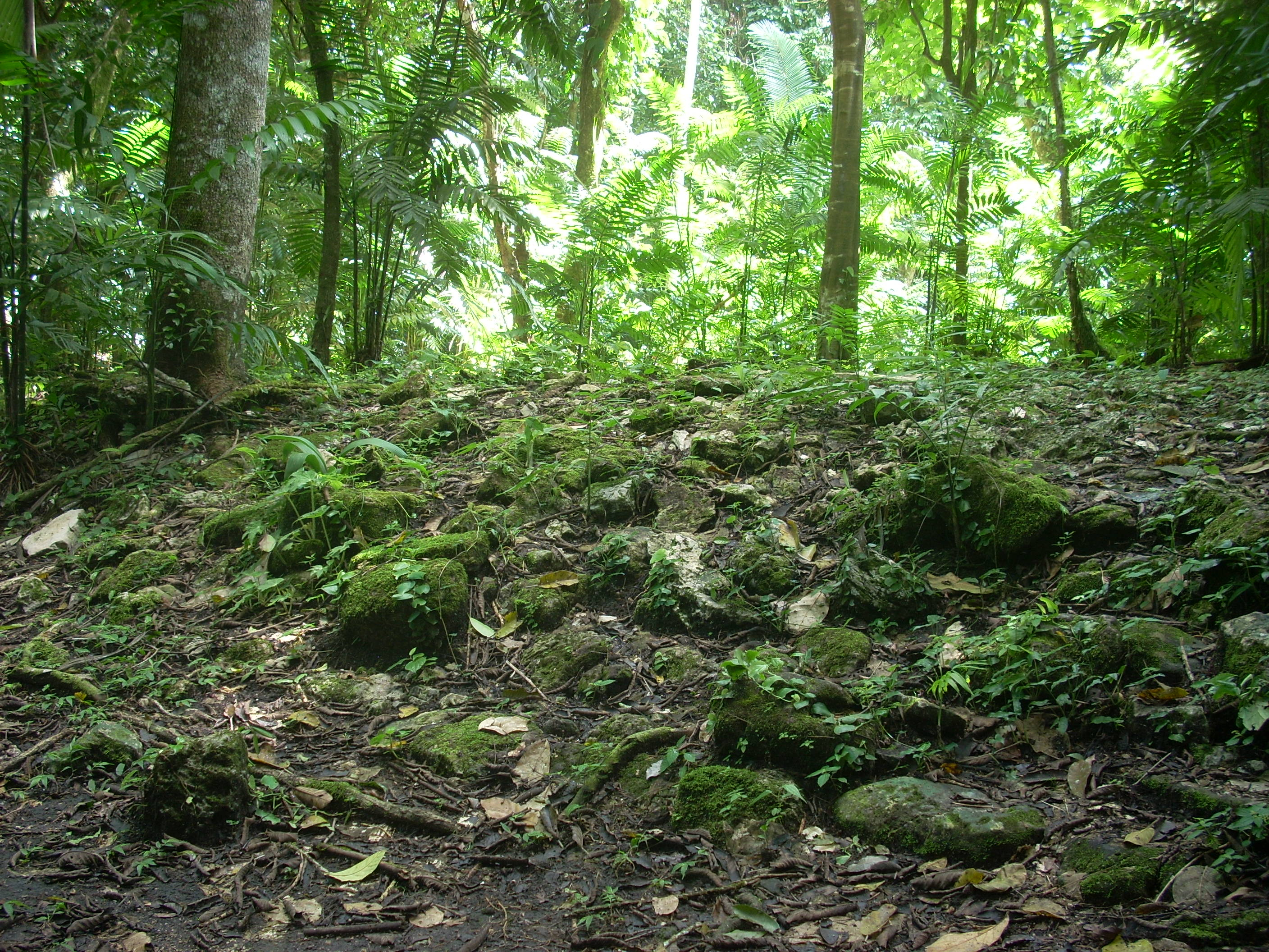 The South Causeway at the Maya ruins of Ixkun, near Dolores, Peten, Guatemala.